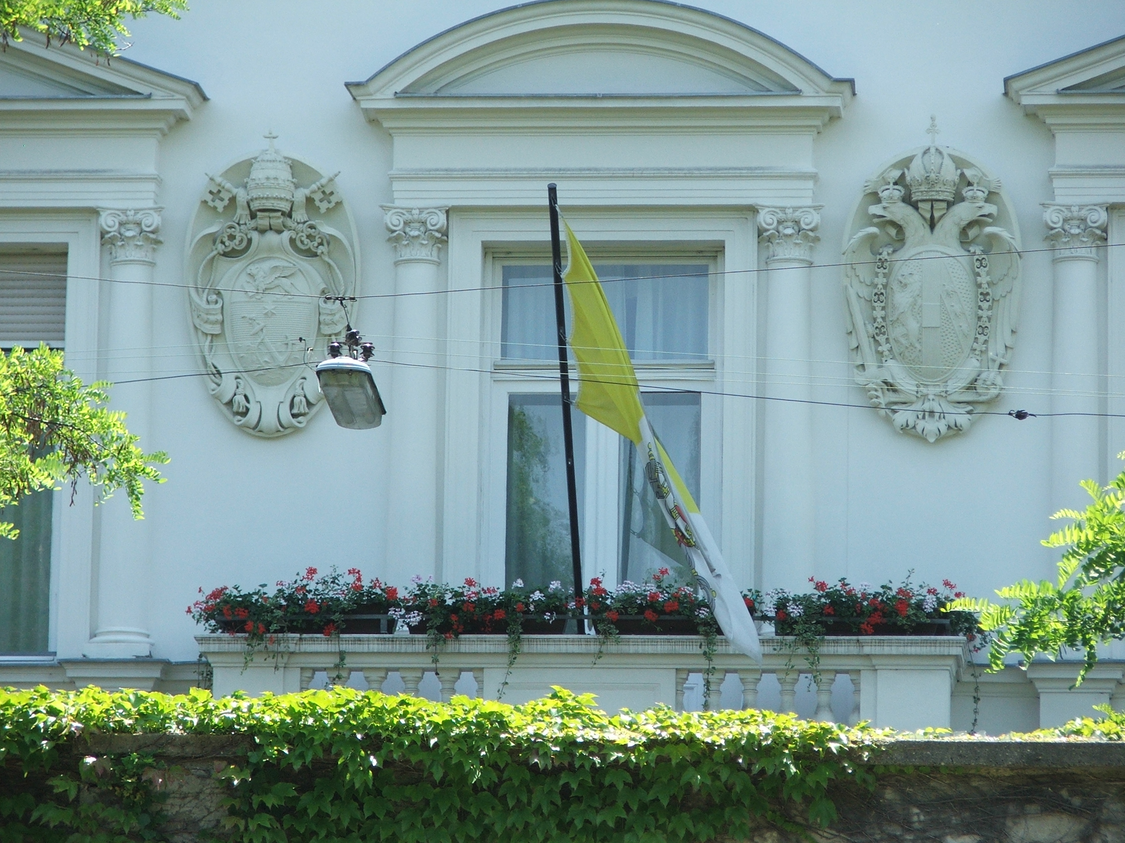 Apostolic Nunciature in Vienna, Austria.